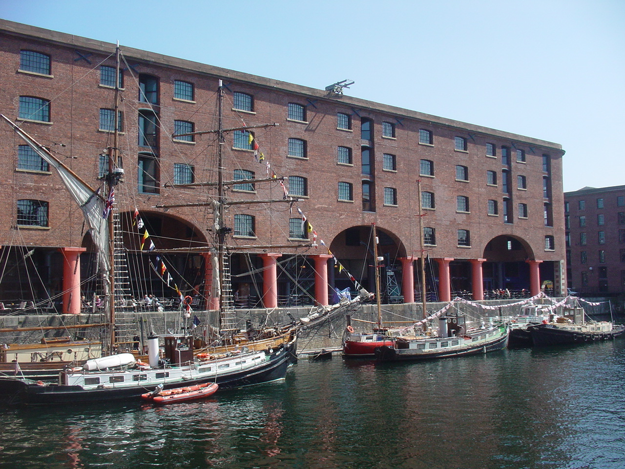 Ships at the Albert Dock, Liverpool, England.